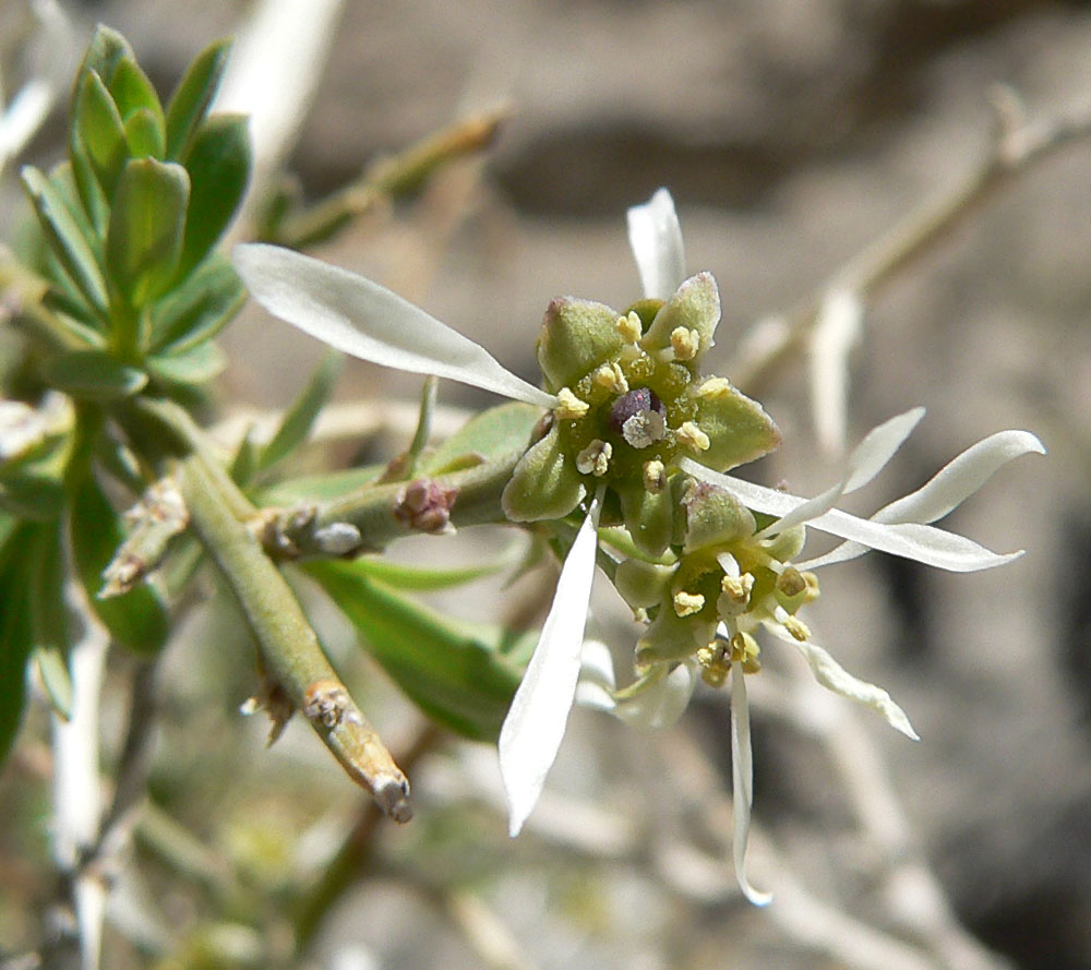 Glossopetalon spinescens var. aridum in the rocks at the junction of the BSA road with 160 east of the Mountain Springs summit, Spring Mountains, southern Nevada (elev. about 1700 m)